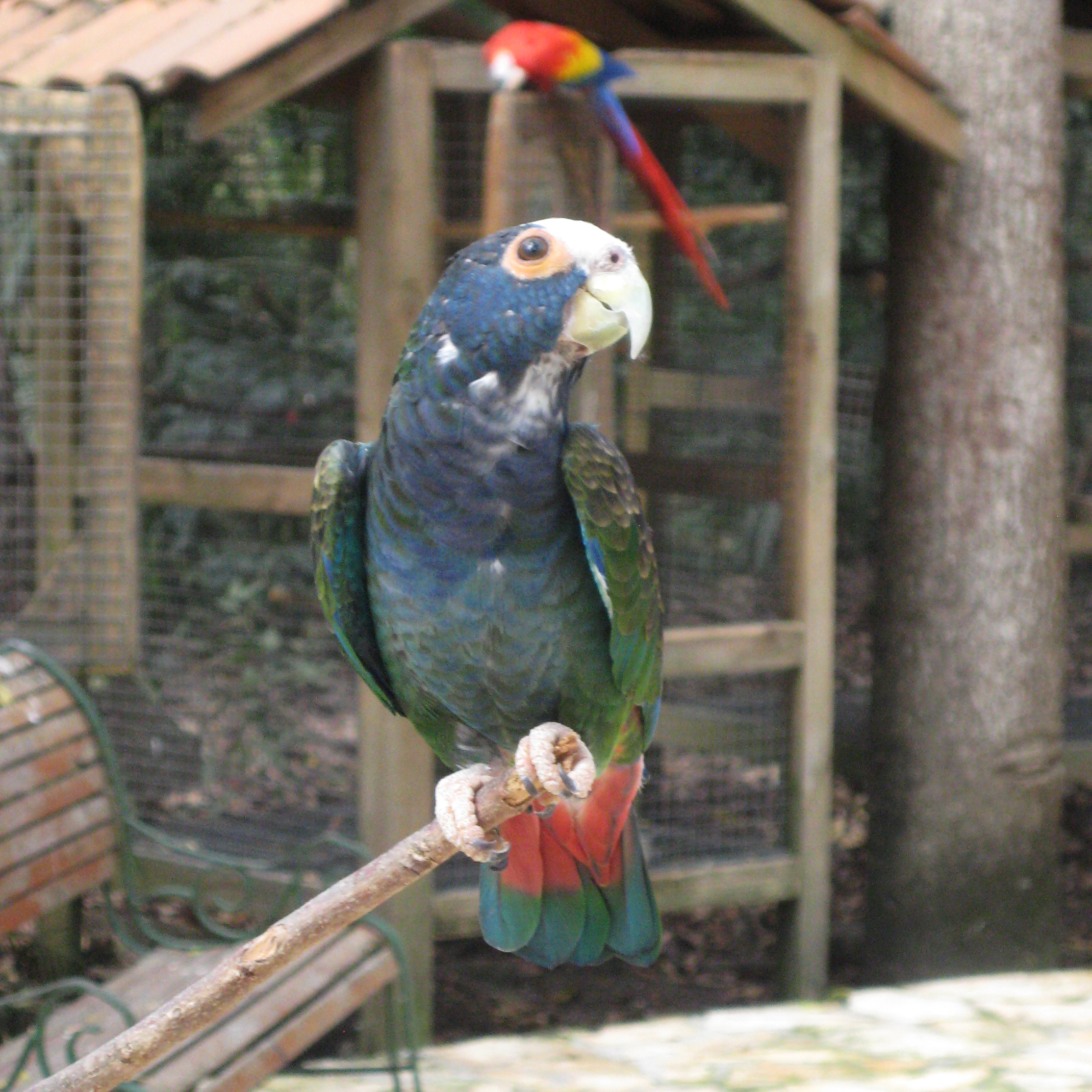 A White-crowned Parrot (also known as the White-crowned Pionus) at Macaw Mountain Bird Park, Copan Ruinas, Honduras.